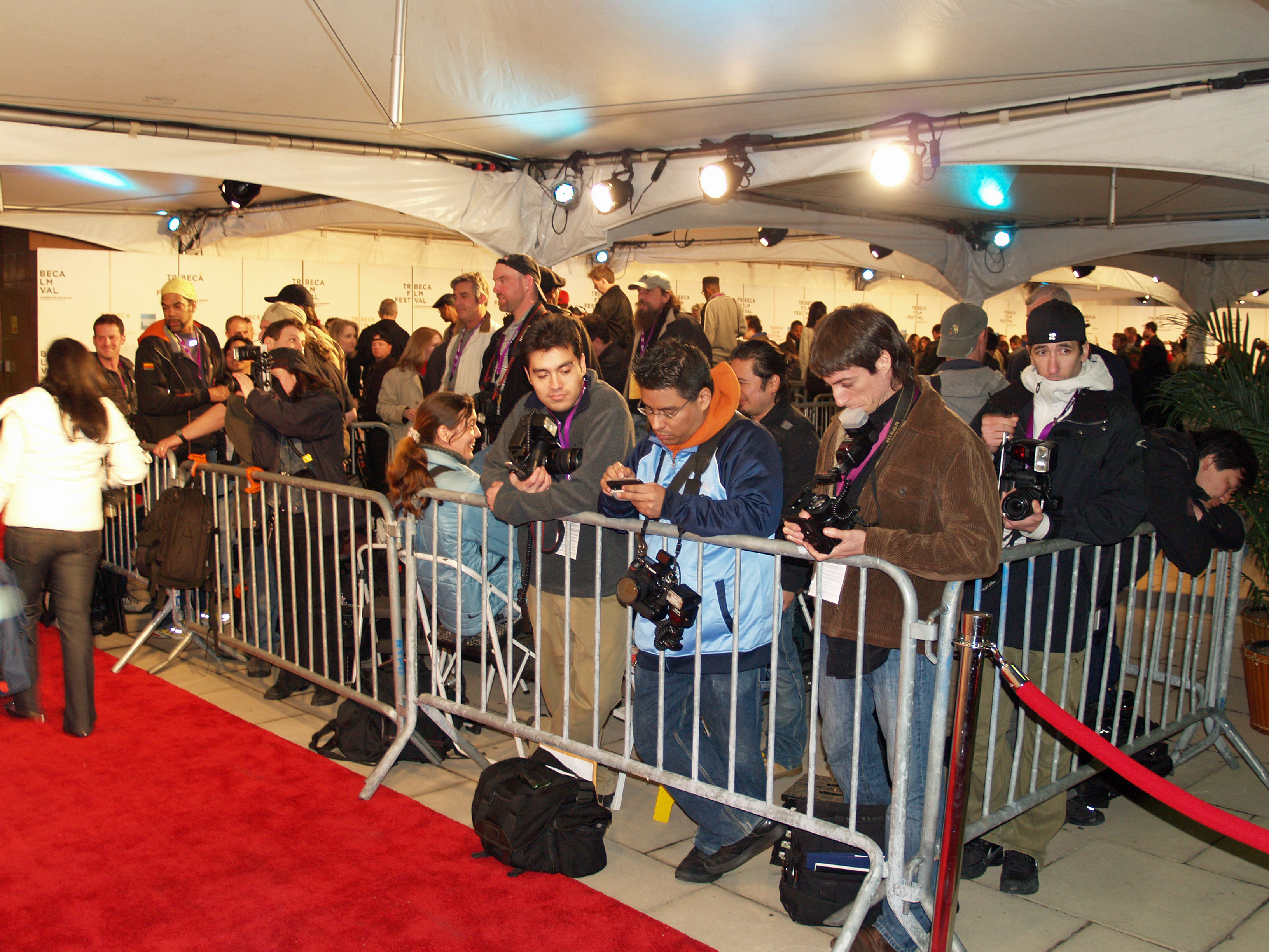 Celebrity Photographers at the Tribeca Film Festival